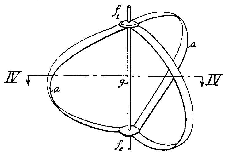 Drawing of the Darrieus rotor from US Patent 1835018